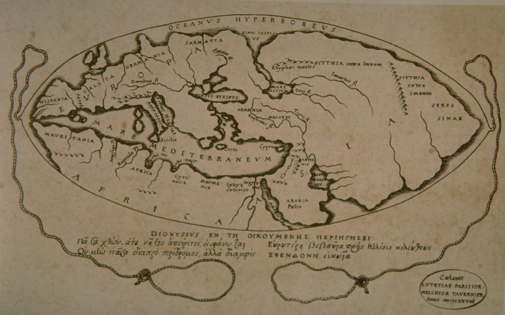 World map according to Posidonius (150-130 B.C.)